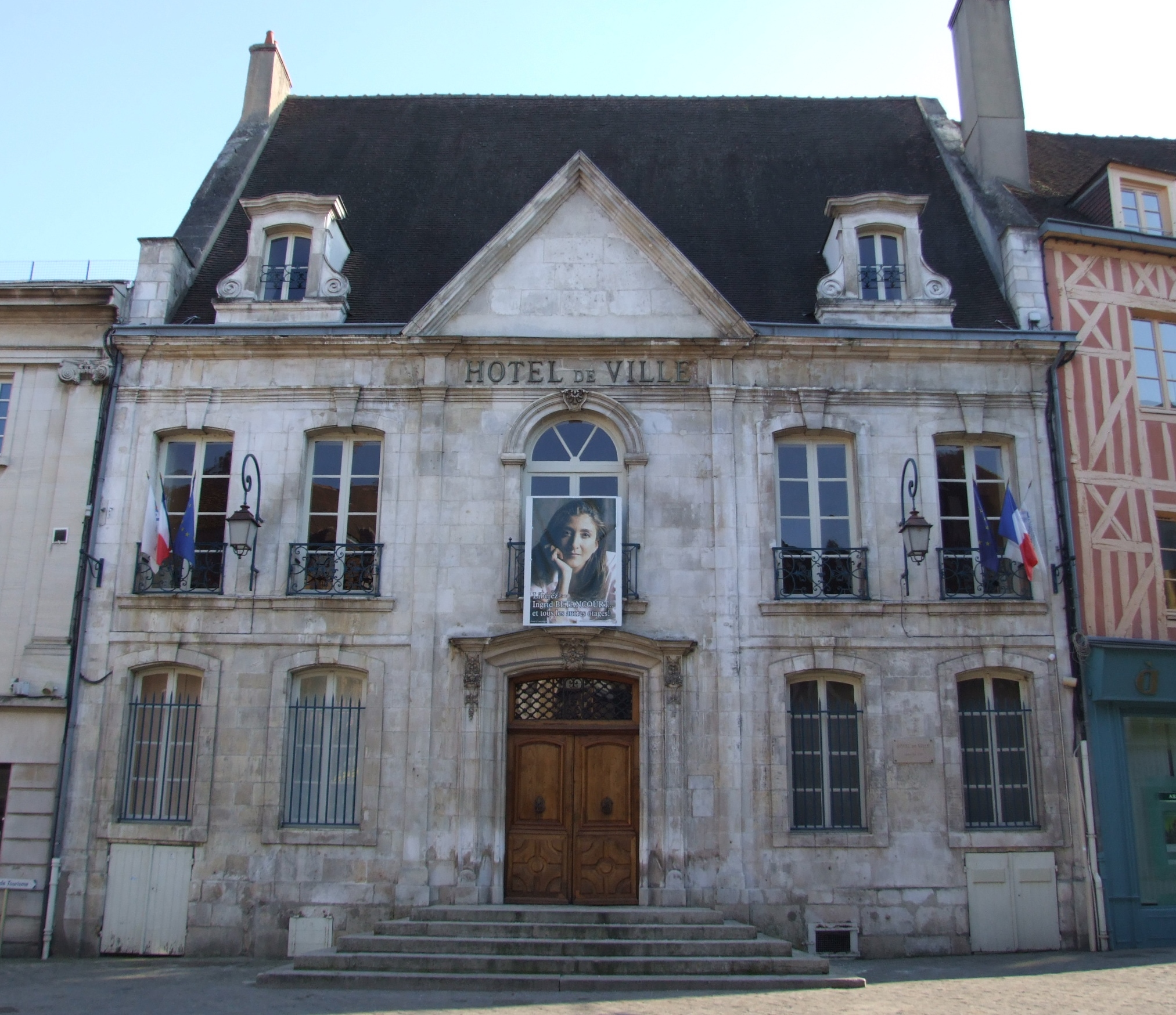 Town hall of Auxerre, Burgundy, France.